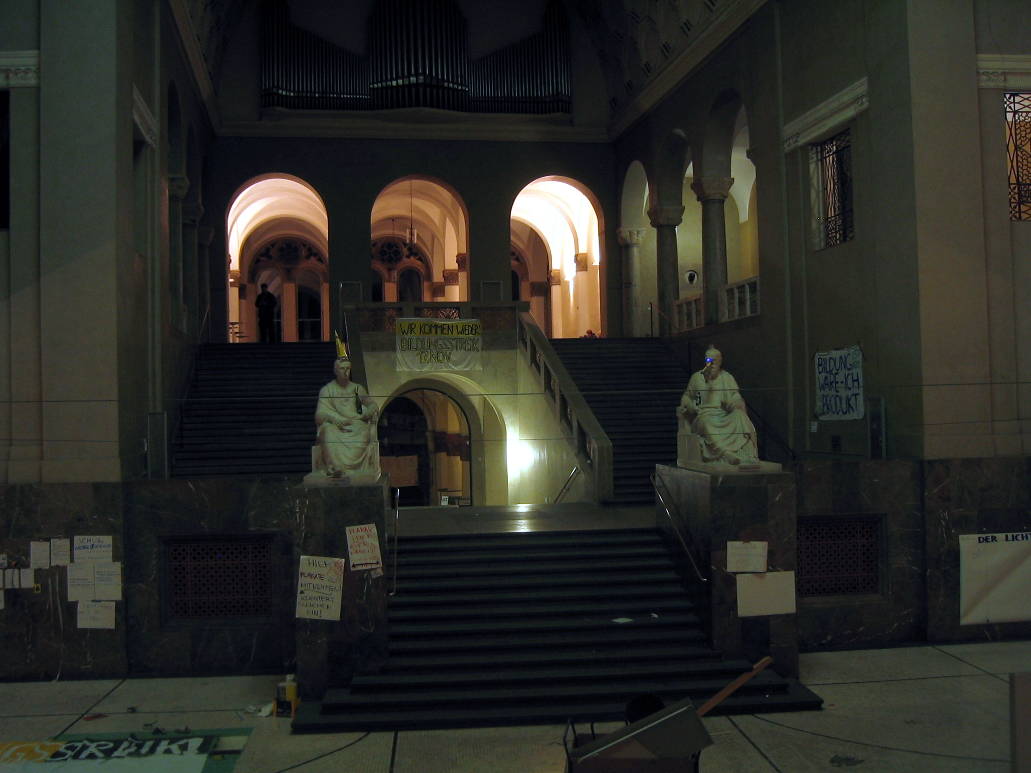 Atrium of the Ludwig Maximilian University of Munich during student protest in autumn of 2009